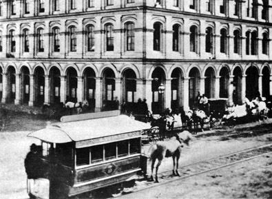 7 at the intersection of Spring & 6th St.